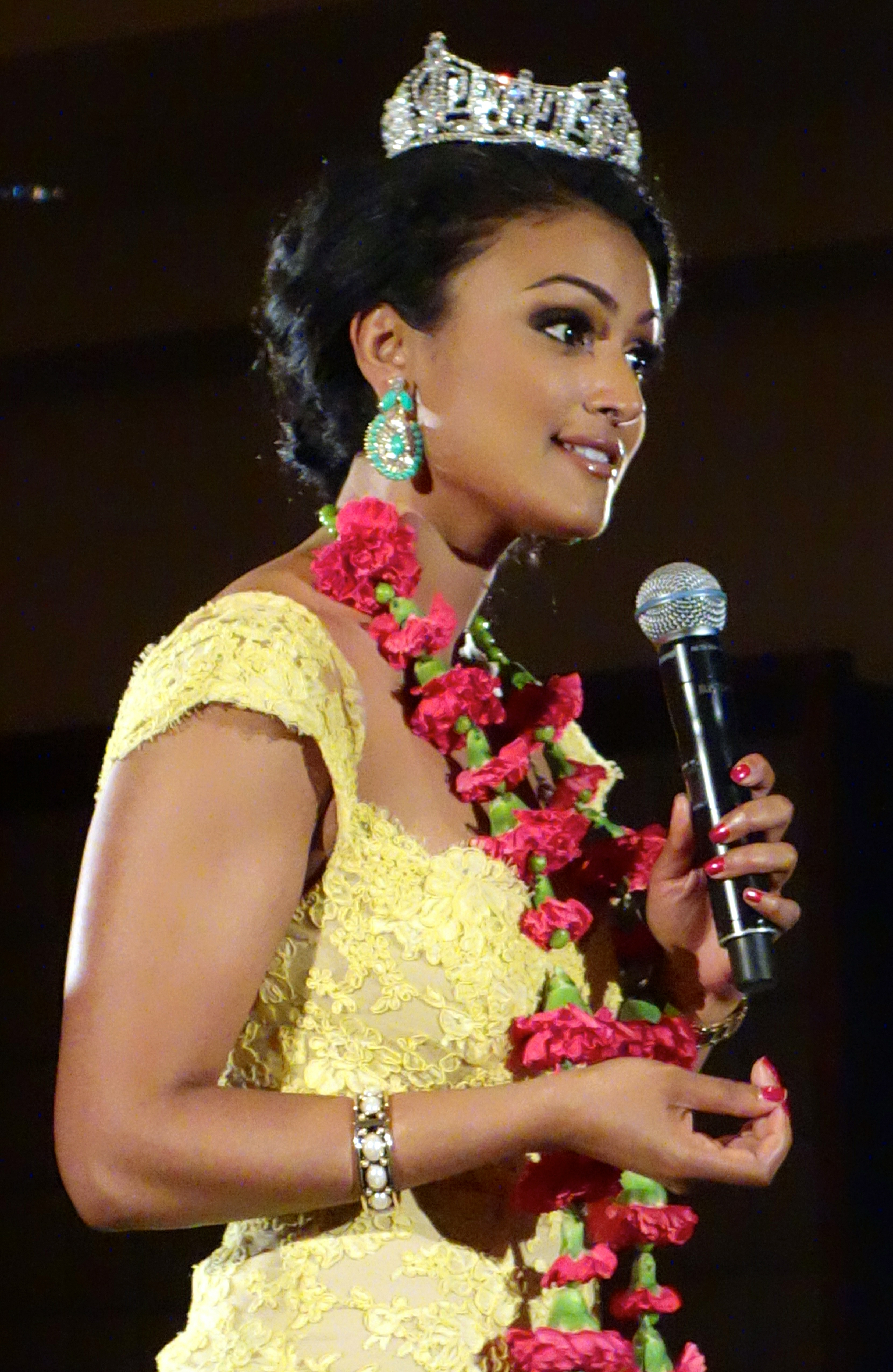 Miss America, Nina Davuluri, joined us at the International Alliance for the Prevention of Aids (IAPA) benefit dinner. Ms. Davuluri is a strong supporter of STEM (Science, Technology, Engineering, and Mathematics) education.